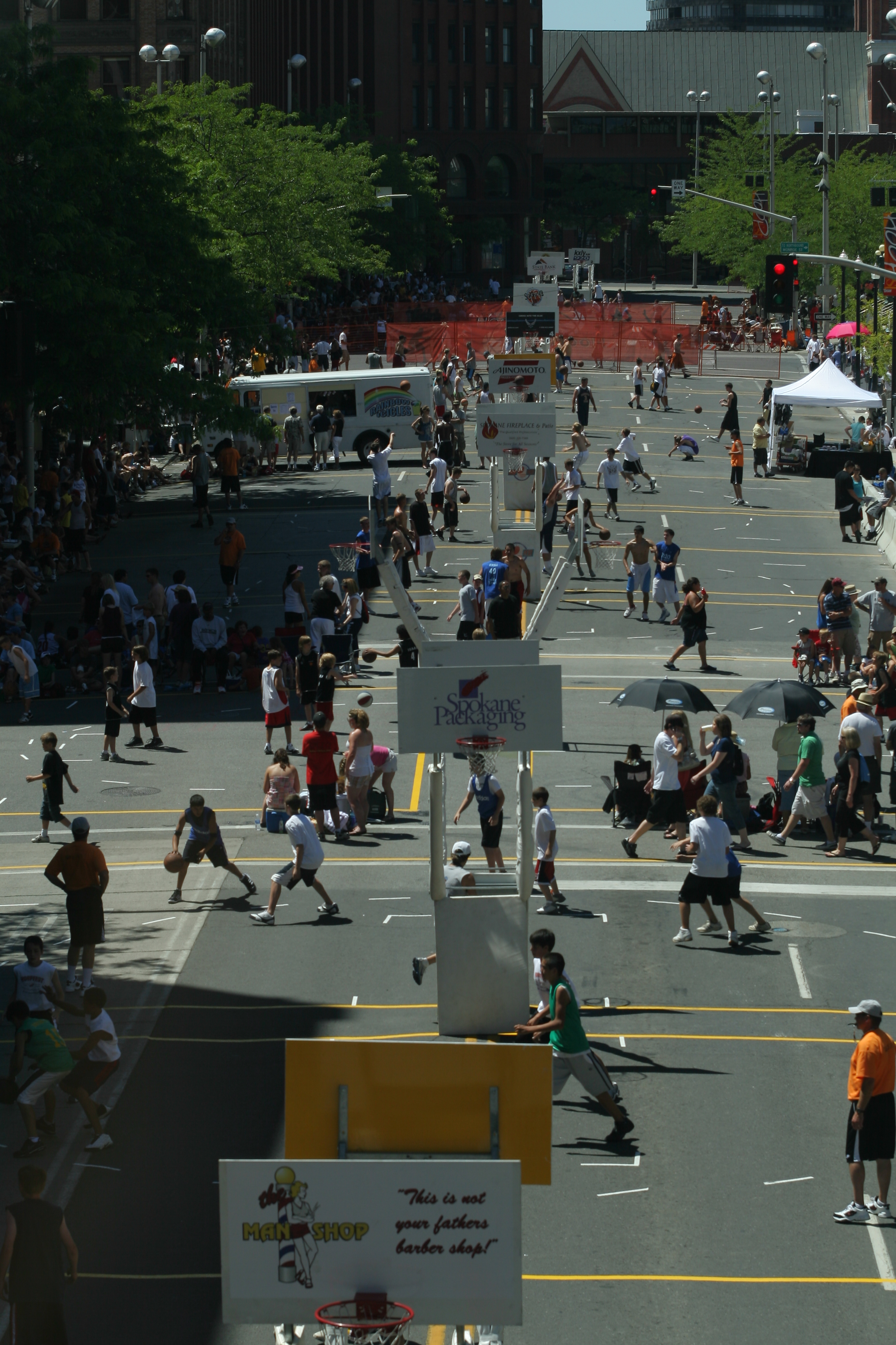 Hoopfest 2008 Spokane, WA. The view down Riverside.